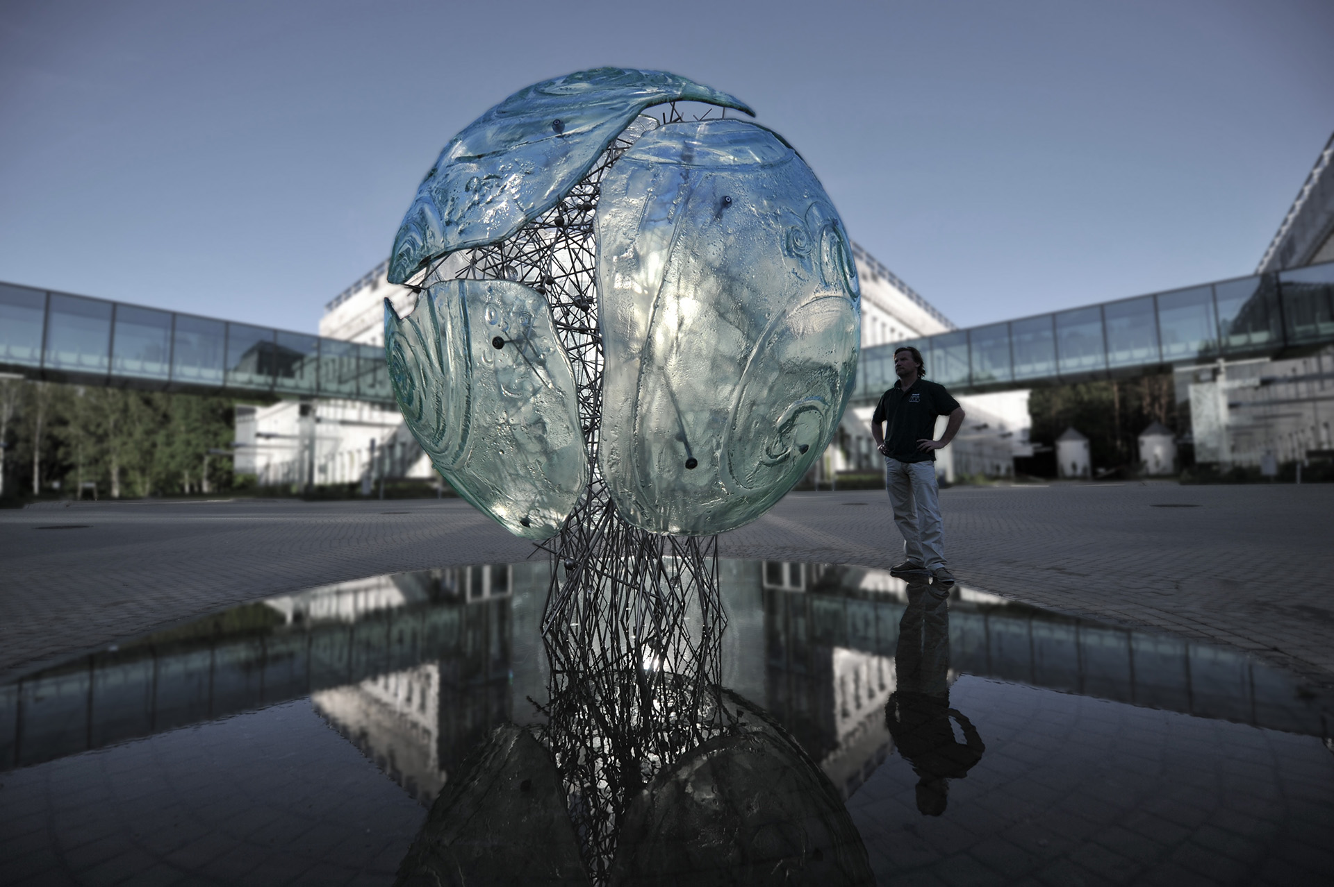 The glass sculpture "Big Bang" at the Campus of the University of Białystok measures 3 meters in height and symbolizes the beginning of the Universe. Artwork by ARCHIGLASS: Tomasz Urbanowicz